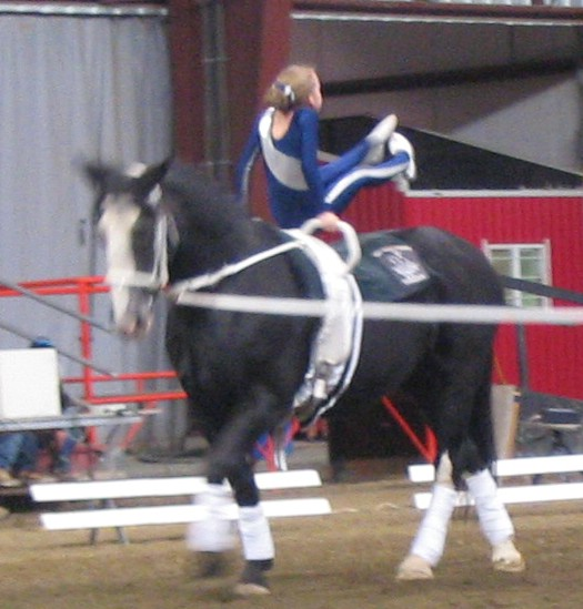 A surcingle (or roller) used for equestrian vaulting.